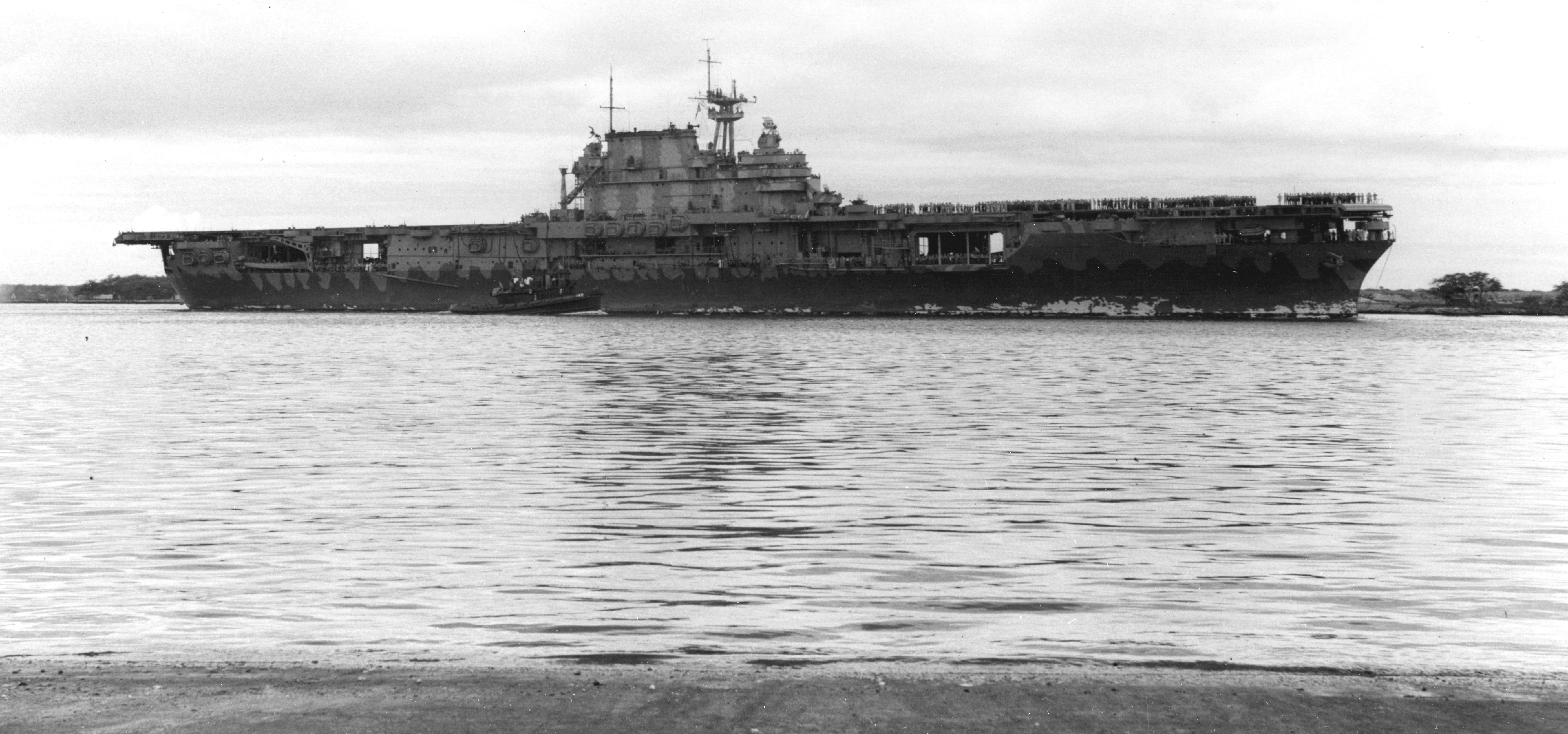 USS Hornet (CV-8) at Pearl Harbor, May 26, 1942, just after the Battle of Coral Sea, and just before the Battle of Midway. Harbor tug Nokomis (YT-142) is underway alongside her. Note paint chipped off Hornet's waterline area by wave action while at sea.